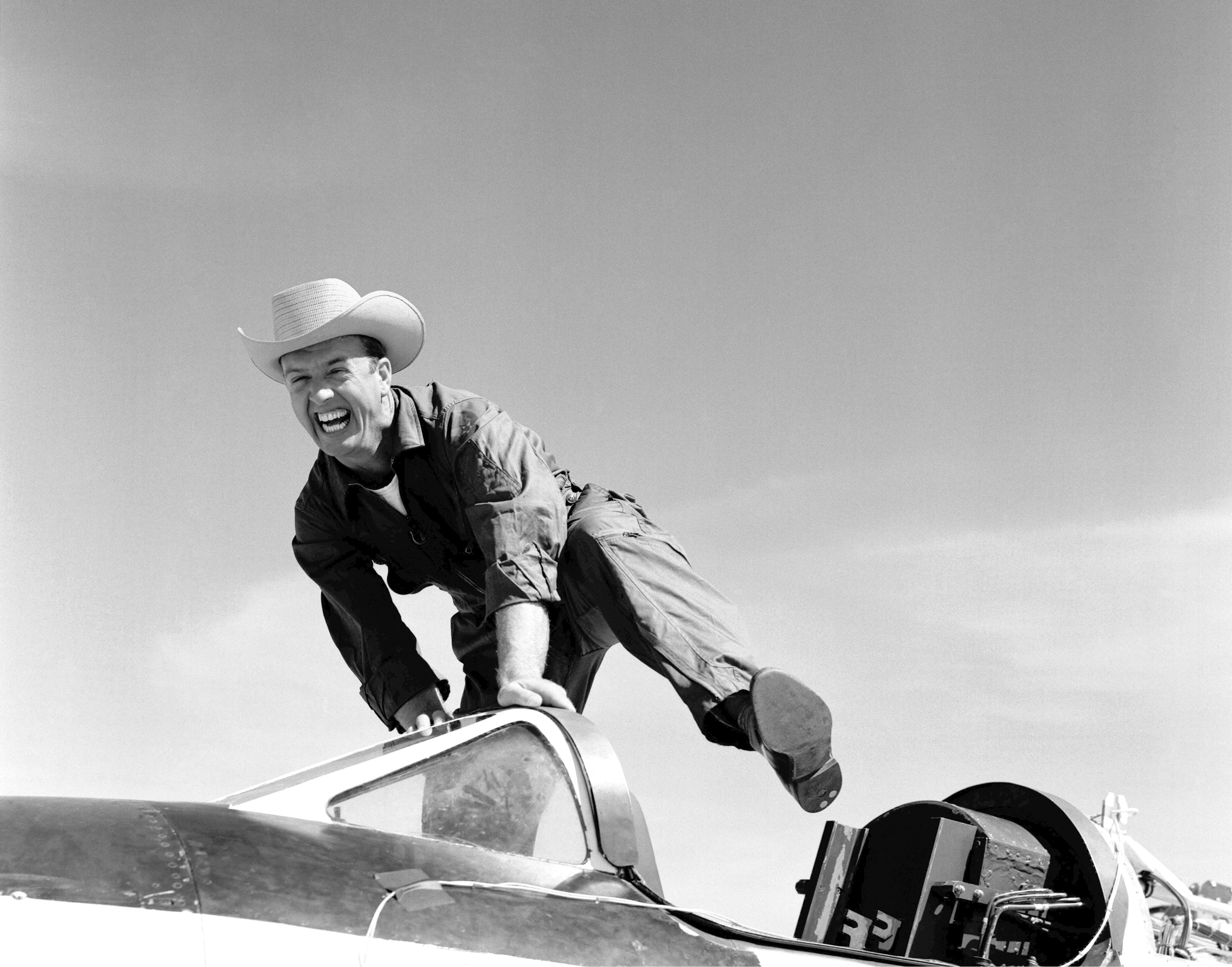 Cowboy Joe (NACA High-Speed Flight Station test pilot Joseph Walker) and his steed (Bell Aircraft Corporation X-1A). A happy Joe was photographed in 1955 at Edwards, California. The X-1A was flown six times by Bell Aircraft Company pilot Jean "Skip" Ziegler in 1953. Air Force test pilots Major Charles "Chuck" Yeager and Major Arthur "Kit" Murray made 18 flights between November 21, 1953 and August 26, 1954. The X-1A was then turned over to the NACA. Joe Walker piloted the first NACA flight on July 20, 1955. Walker attempted a second flight on August 8, 1955, but an explosion damaged the aircraft just before launch. Walker, unhurt, climbed back into the JTB-29A mothership, and the X-1A was jettisoned over the Edwards AFB bombing range.